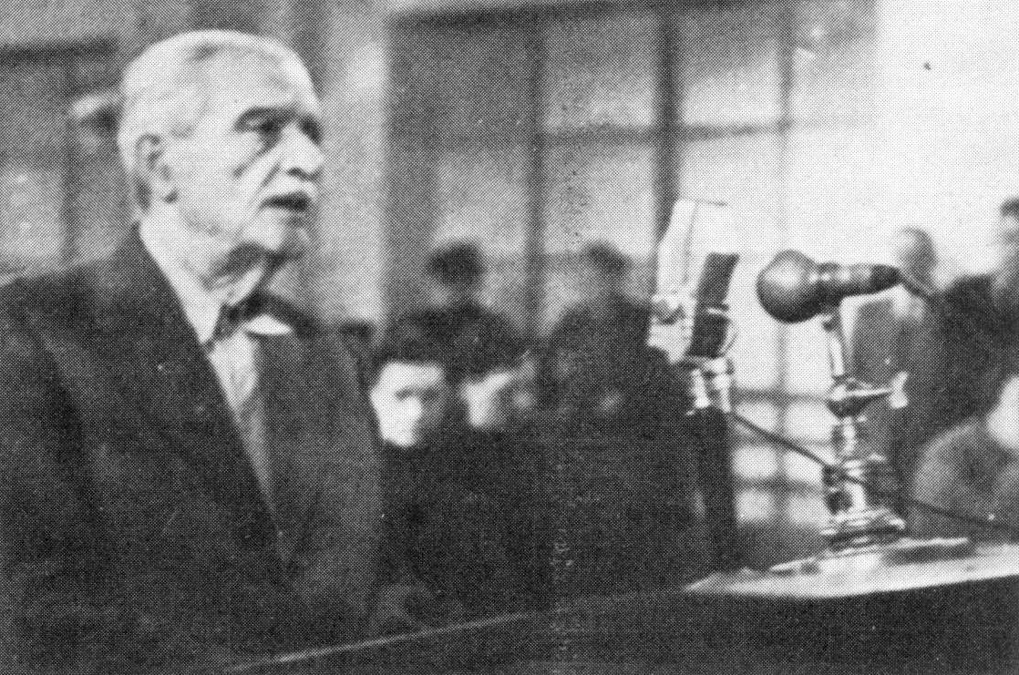 Slavko Kvaternik during the trial in Zagreb in 1947.